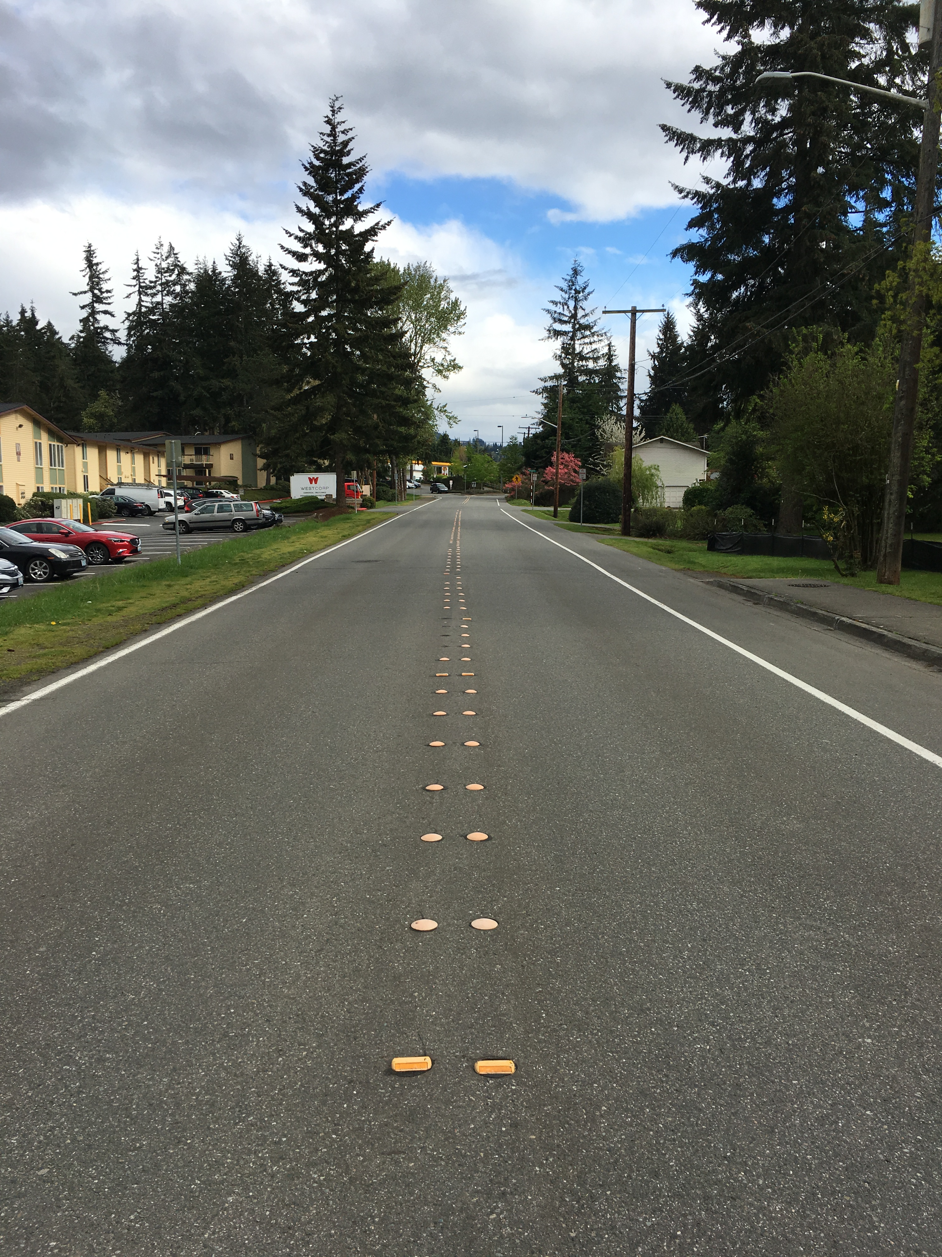 A picture of a road with Lane Lines taken at Bellevue, Washington